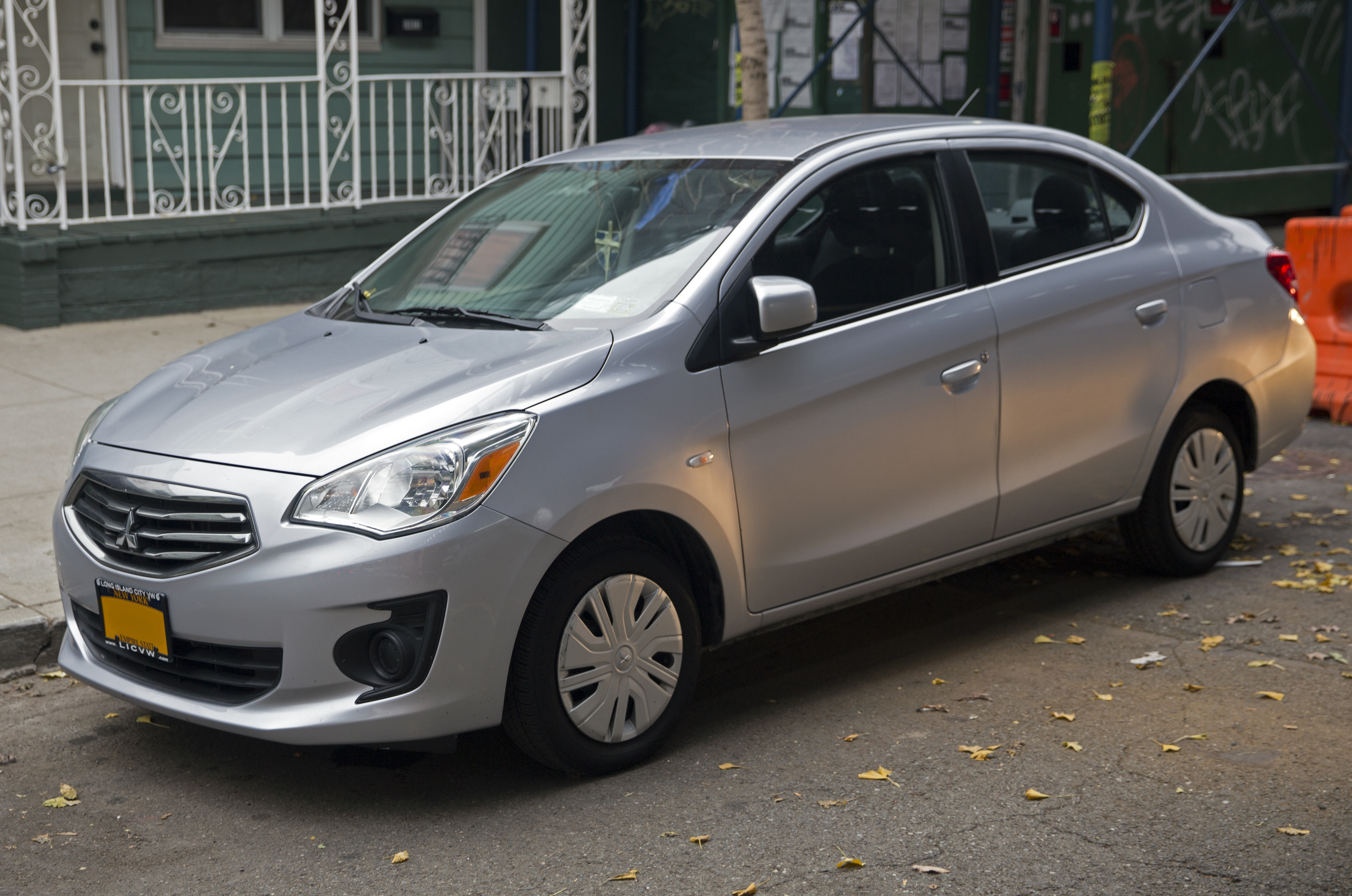 2017 Mitsubishi Mirage G4 ES CVT FWD ES 4dr Sedan in silver. Recently sold with about 50K miles on it; so nearing the end of its life on NYC's war-torn roads.